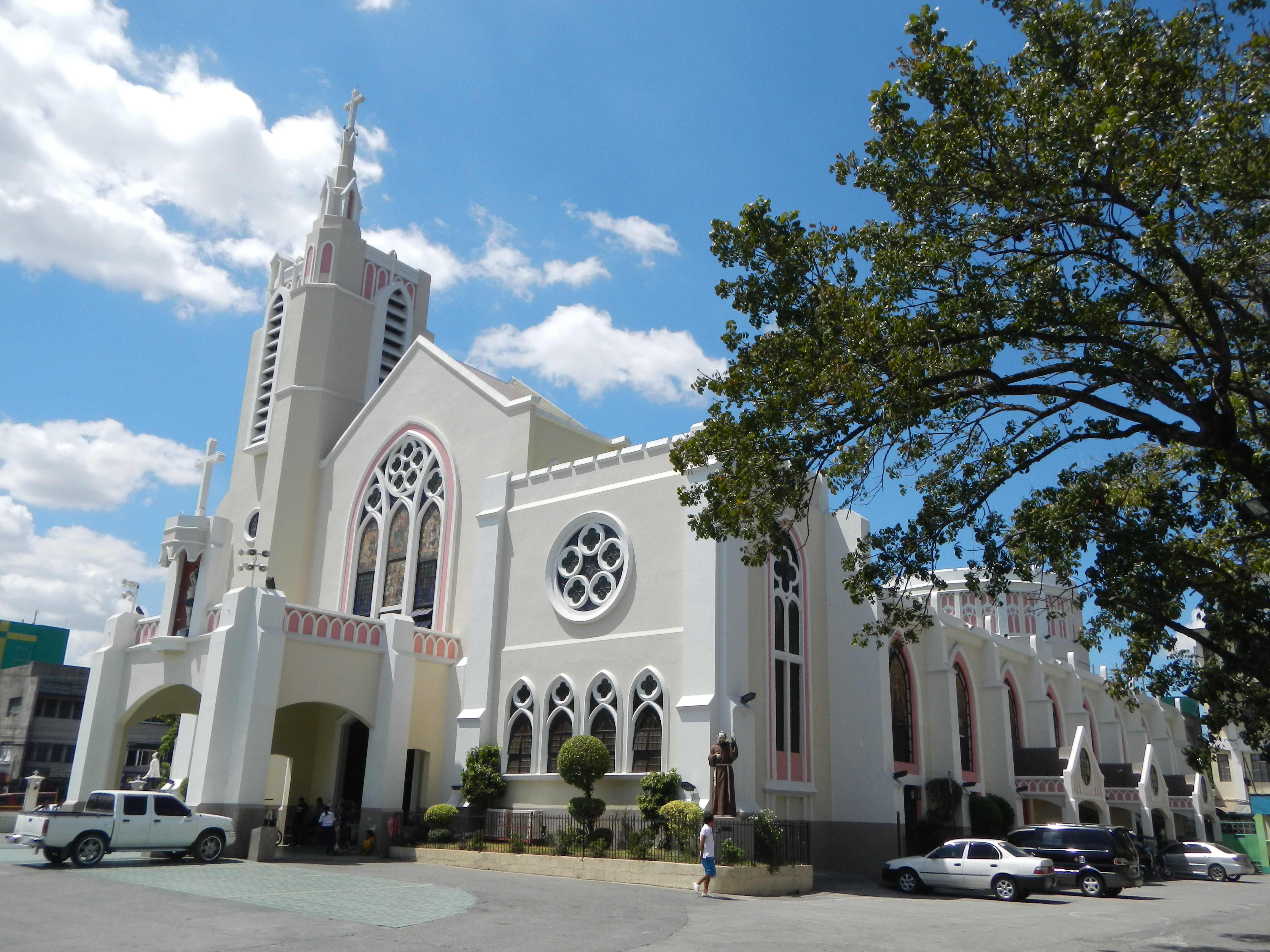 Tarlac Cathedral Roman Catholic Diocese of Tarlac located at F. Tañedo and J. P. Rizal Streets Cut-cut I and Cut-cut II, Tarlac City List of Barangays in Tarlac, Barangays Cut-cut I and Cut-cut II, 15°29'11"N 120°35'10"E Tarlac City, Tarlac Province Philippine highway network (Note: Judge Florentino Floro, the owner, to repeat, Donor Florentino Floro of all these photos hereby donate gratuitously, freely and unconditionally Judge Floro all these photos to and for Wikimedia Commons, exclusively, for public use of the public domain, and again without any condition whatsoever).